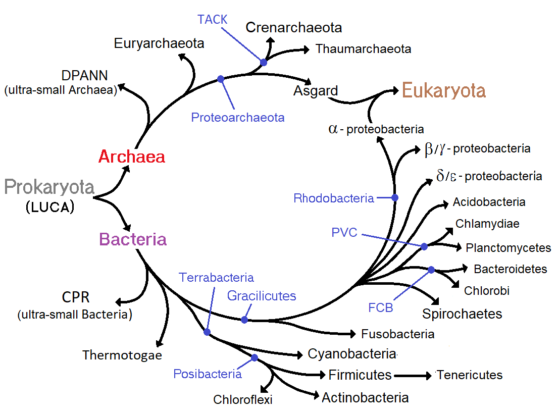 Phylogenetic ring showing the diversity of prokaryotes, and symbiogenetic origins of eukaryotes